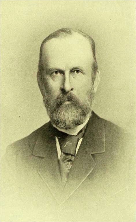 Ferdinand von Richthofen (1833-1905) was a considerable German geographer and exploratory traveller. He is also to be considered as the founder of modern geomorphology.